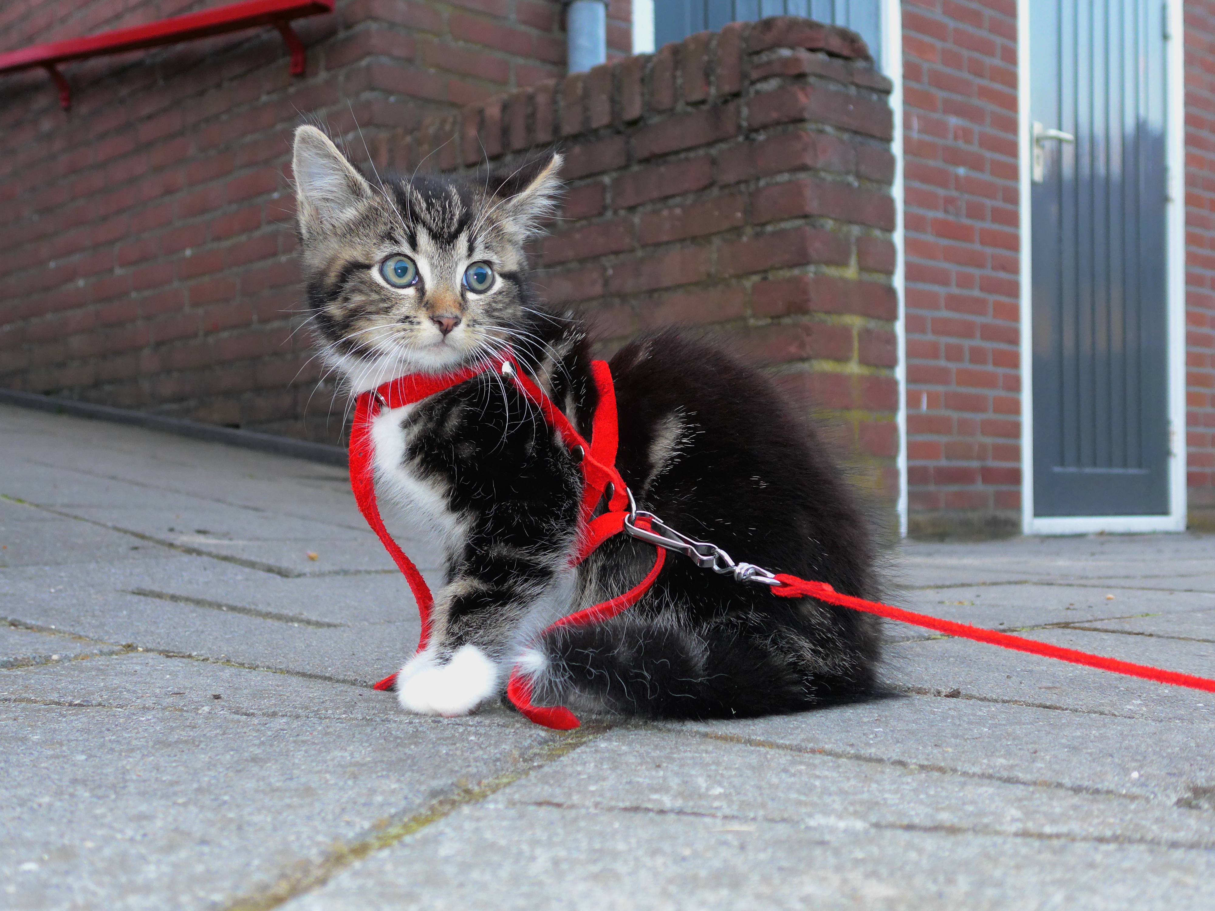 Eight weeks old male kitten in the Dutch city of Groningen during its very first steps in the outside world.